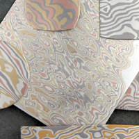 Pattern Samples of Gold and Silver Mokume Gane by James Binnnion (Me)